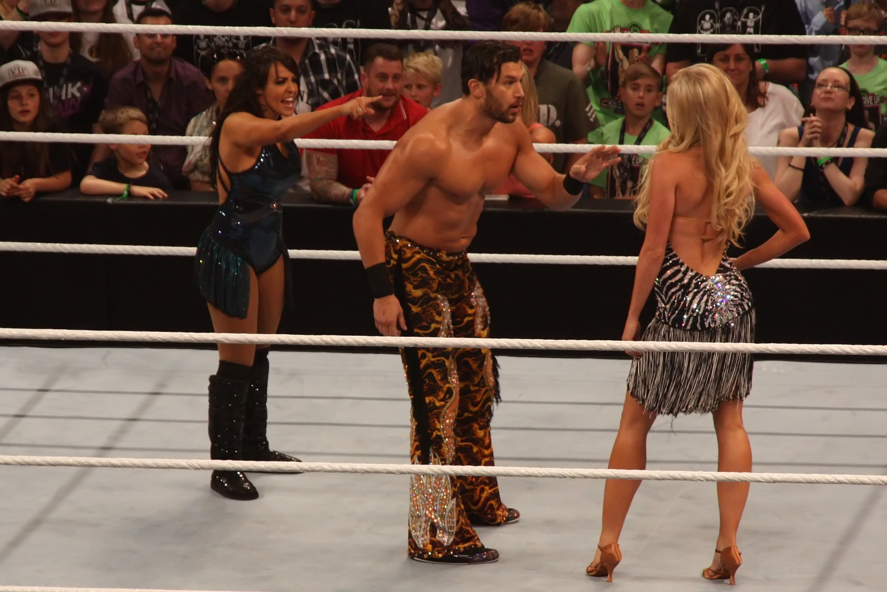 Summer Rae (right) making her return to confront Layla (left) and Fandango (centre) at the RAW tapings on 19 May 2014 at the O2 in London.